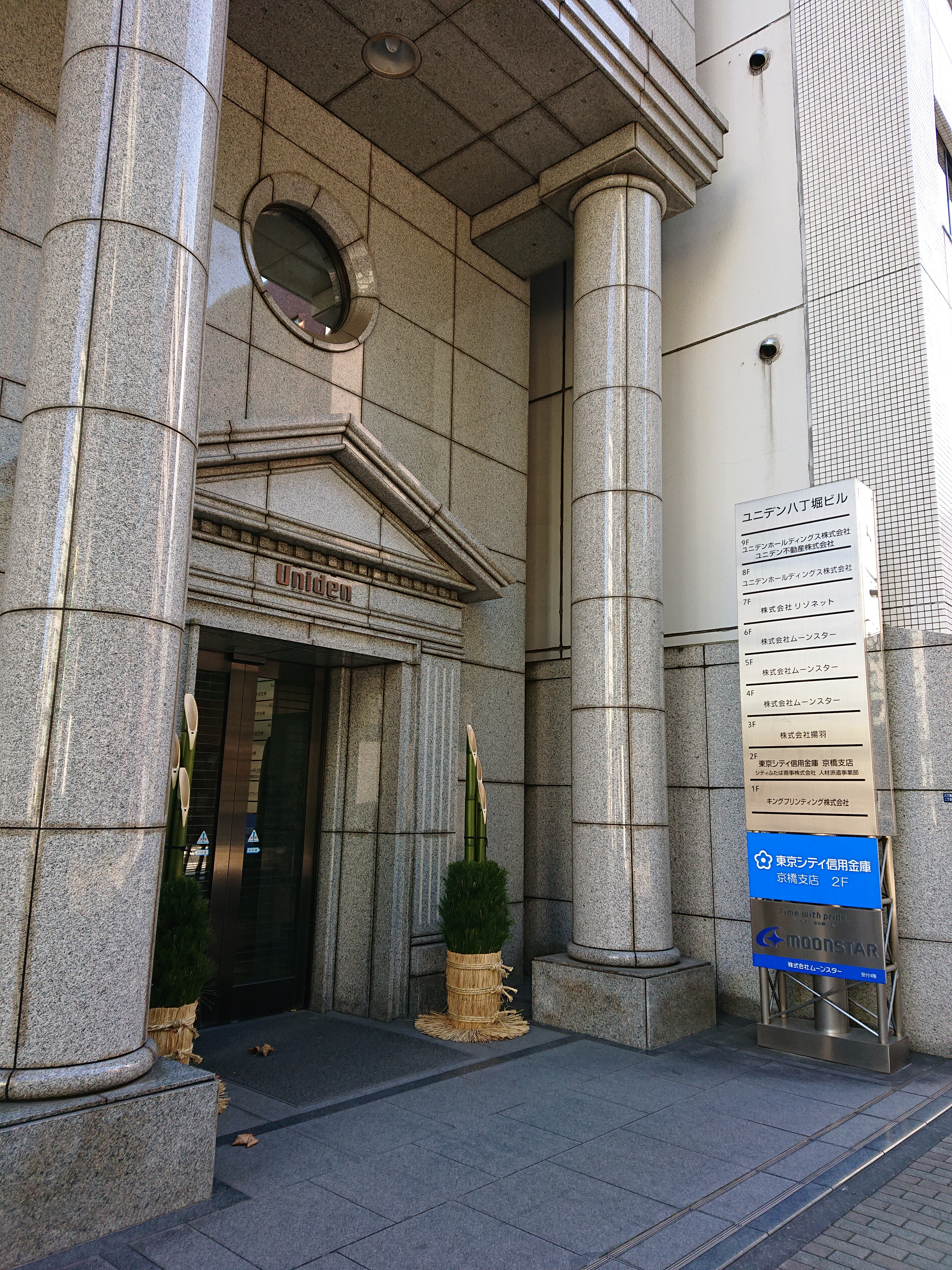 Uniden Holdings (ユニデンホールディングス) headquarters, located at 2-12-7 Hatchobori, Chuo, Tokyo, Japan